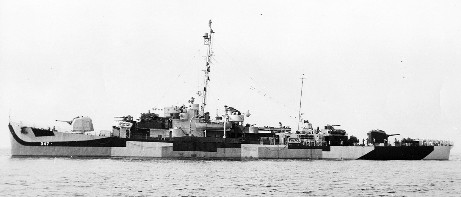 The U.S. Navy destroyer escort USS Jesse Rutherford (DE-347) off New York City (USA) on 8 November 1944. Jesse Rutherford was part of CortDiv 76 and left the Atlantic for duty in the Pacific on 10 November 1944. She is painted in Camouflage Measure 32, Design 3D.